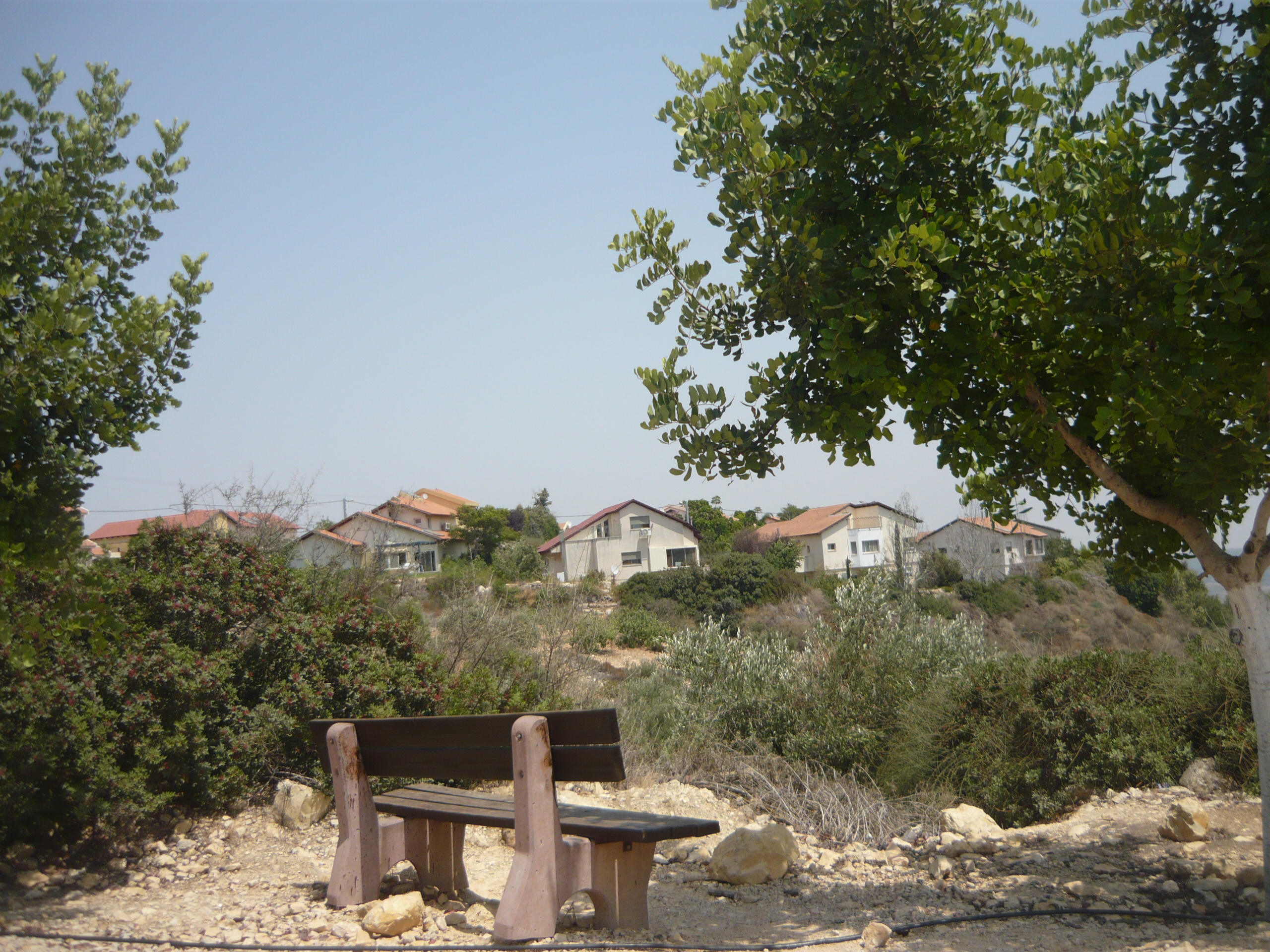 mitzpenetofa2